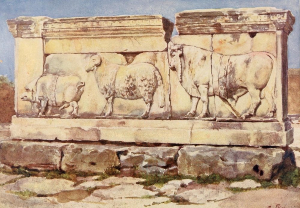 Rome by Alberto Pisa (1905)